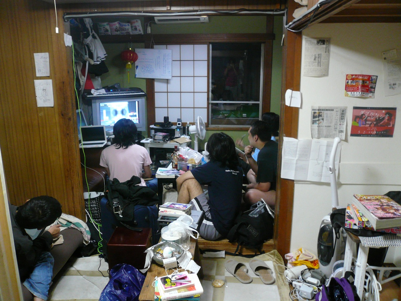 Geekhouse Higashinihonbashi